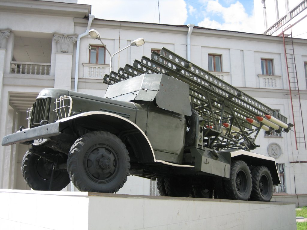 BM-13-16 on ZiS-151 chassis at a museum in Russia.